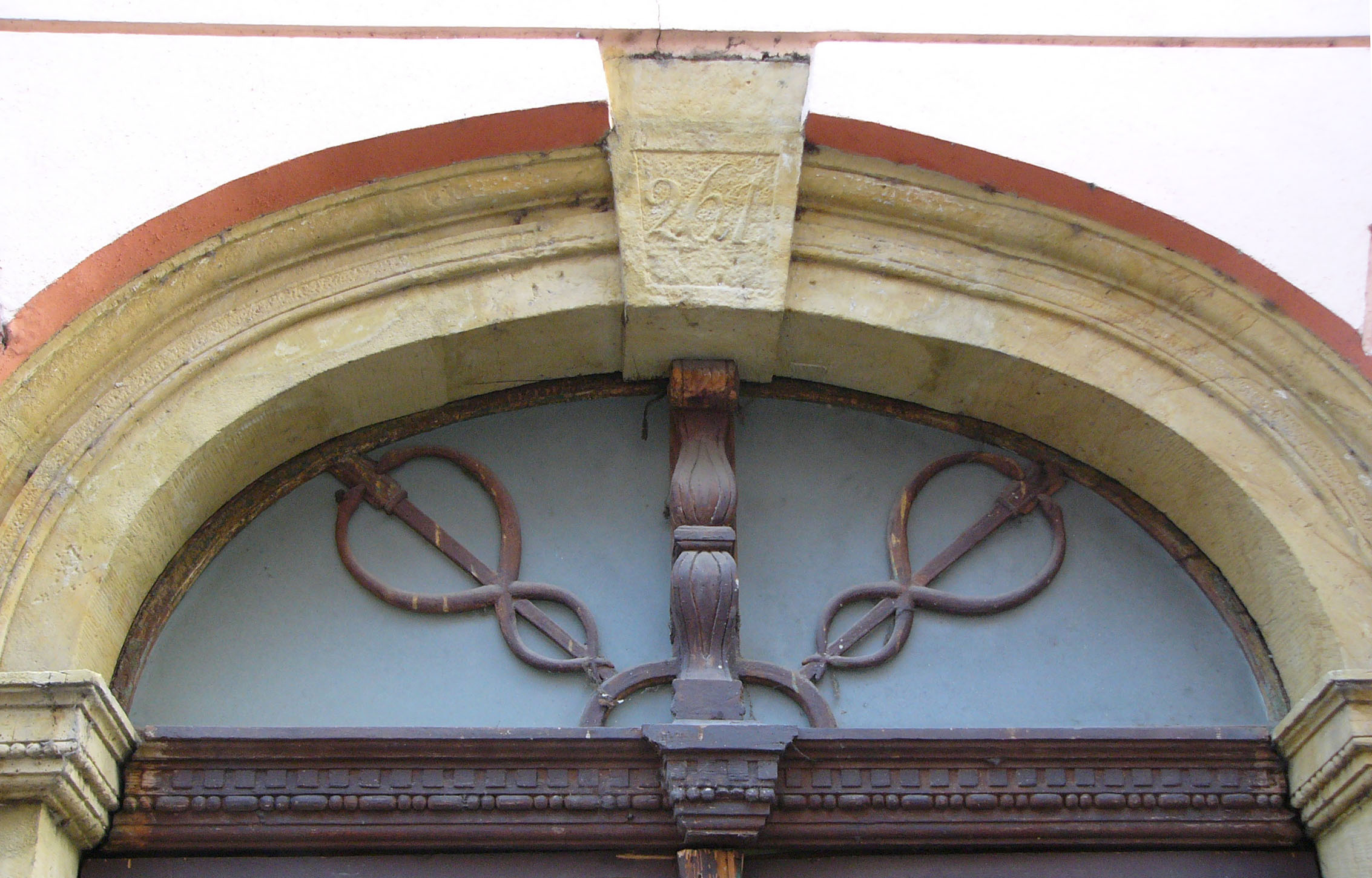 Two caducei as decoration of door portal in Ztracená street in Olomouc (Czech Republic).